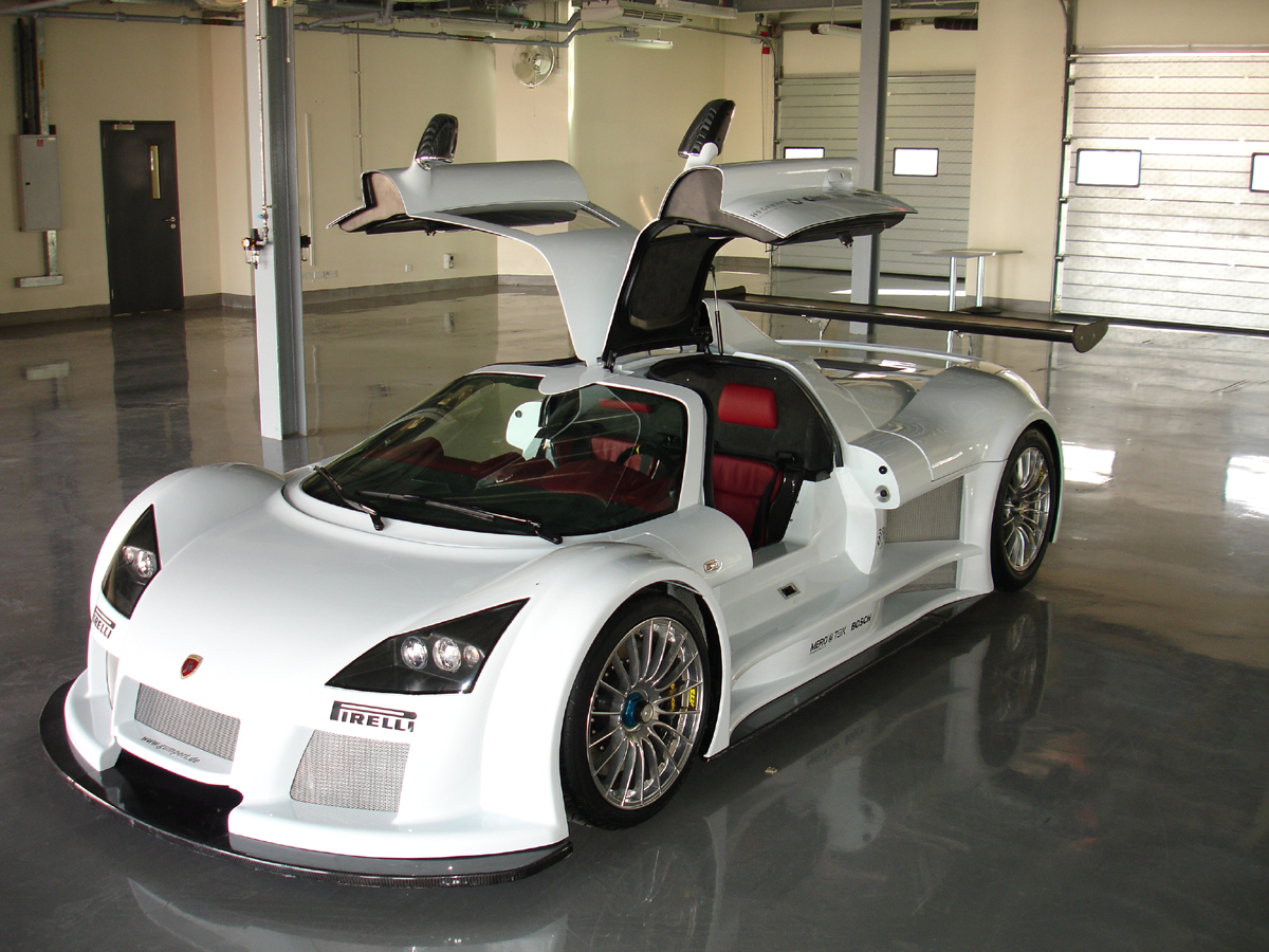 The pre-production car of the Gumpert Apollo at the Dubai Autodrome